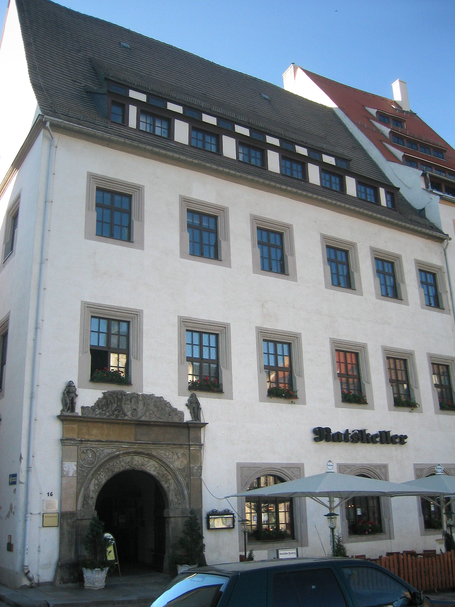 Freiberg, Sachsen, Germany: Obermarkt square, House No. 16 Built 1545/1546 as trading store by Sebastian Lorenz sr. The ground floor was used for selling wine and meat, the upper floor contained selling stands of cloth makers, furriers and shoemakers, as well as an elegant wine bar "Ratstrinkstube". 1683-1687, the building was rebuilt, incorporating a municipal festive hall (Städtischer Festsaal) in the upper floor. In 1727, the German theatre actress and impresario, Caroline Neuber (die Neuberin) performed in the hall. In 1834 and 1836, the pianist, Clara Schumann played in the hall. Since 1880, the building is used as a restaurant "Ratskeller".